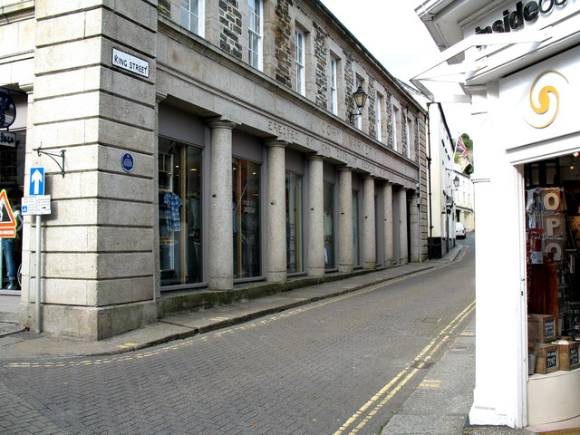 Tavistock Corn Exchange This was built at the time much of Tavistock was rebuilt by the Duke of Bedford in the middle of the 19th century. It is now a retail outlet.